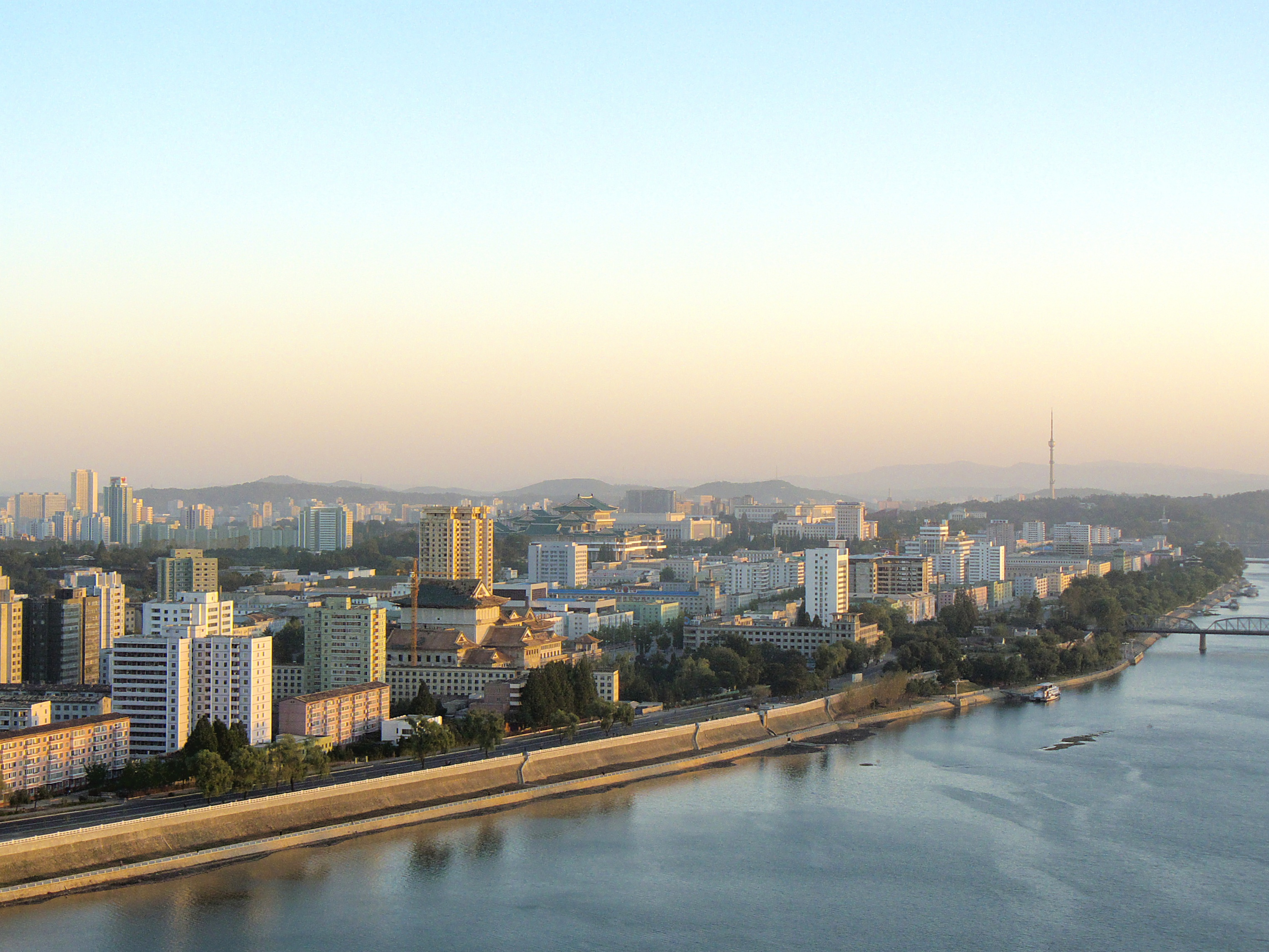 The showcase capital, Pyongyang is truly one of a kind. Ravaged by successive wars, the Pyongyang you see today is the result of centrally planned postwar reconstruction. As a result the city is incredibly ordered and immaculately clean. The city is also refreshingly unpolluted, there are hardly any vehicles on the roads and smoke belching factories are all banished to the outskirts.